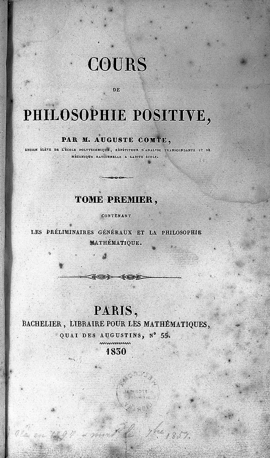 Title page Rare Books Keywords: Isidore Auguste Marie Francois Xavier Comte